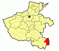 Gushi County is highlighted on this map of Henan province, People's Republic of China.